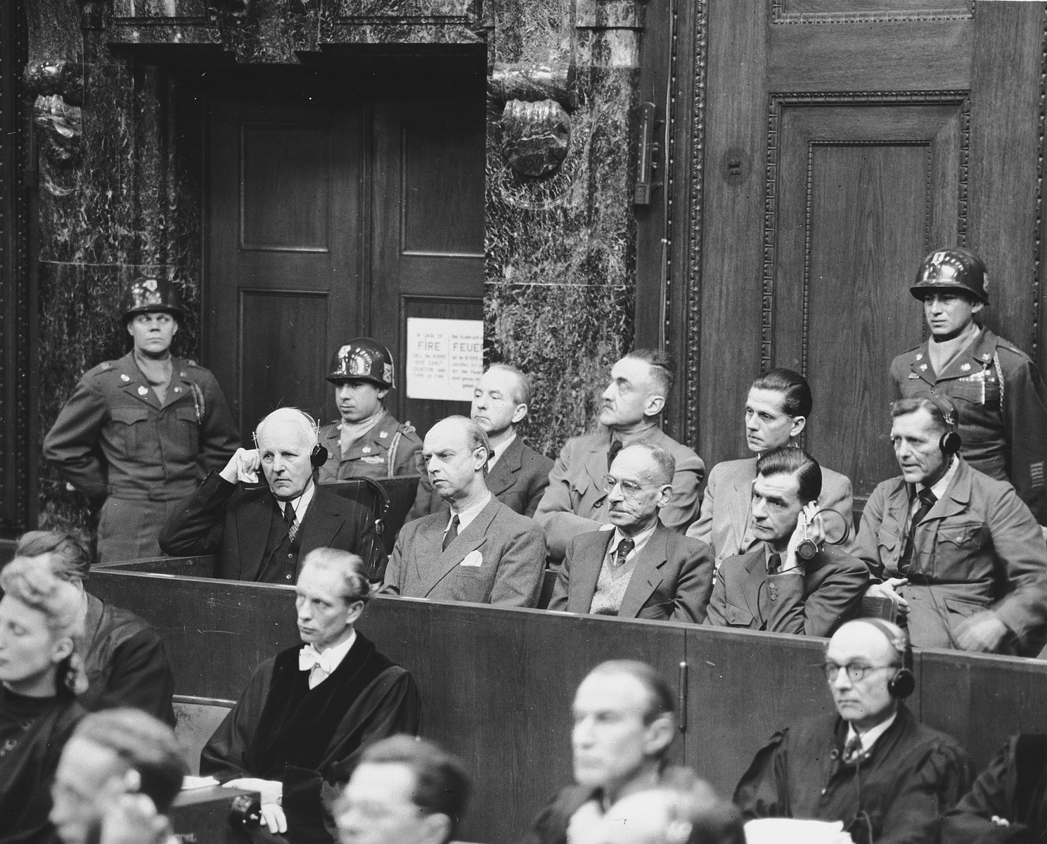 The defendants of the Ministries Trial sit in the dock.